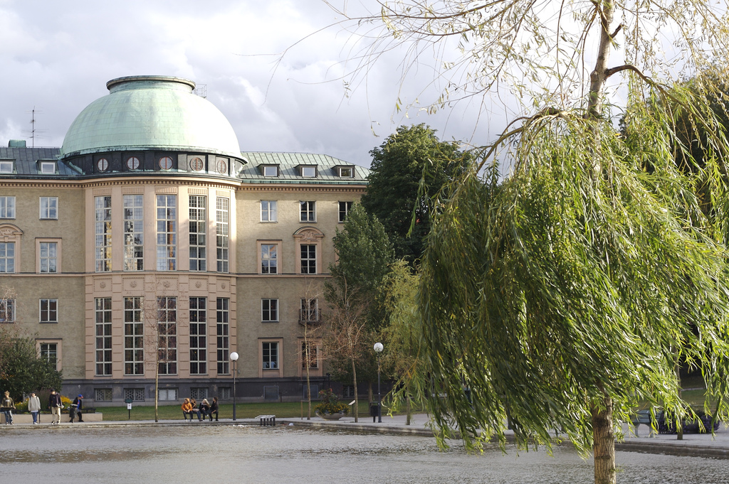 SSE